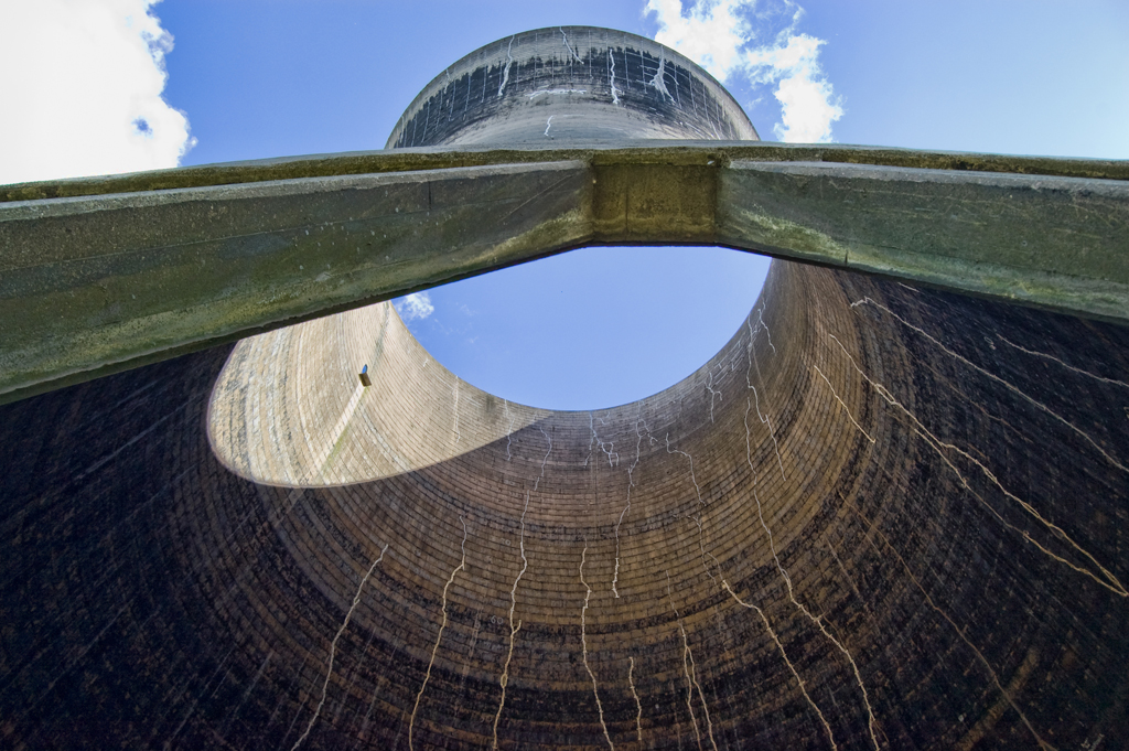 During regular operation these concrete structures are usually filled with an array of equipment to assist with the cooling of the moisture that they vent; but many of the towers at Thorpe Marsh Power Station in Yorkshire, England have been gutted of their innards. This allows superb views right up through the hyperboloid interior. The original file is available online in full resolution at this address.